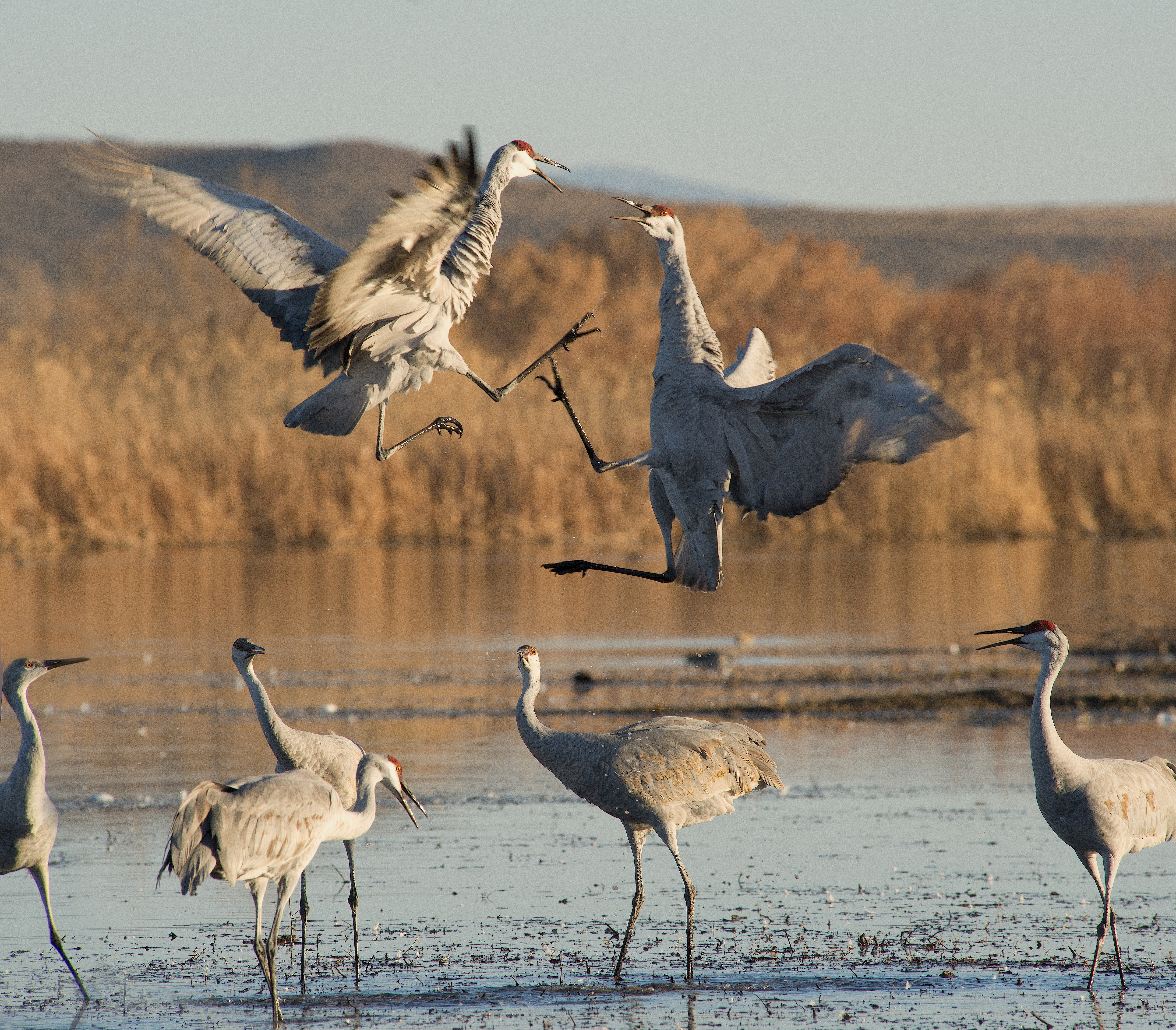 "This pond ain't big enough for the two of us!"